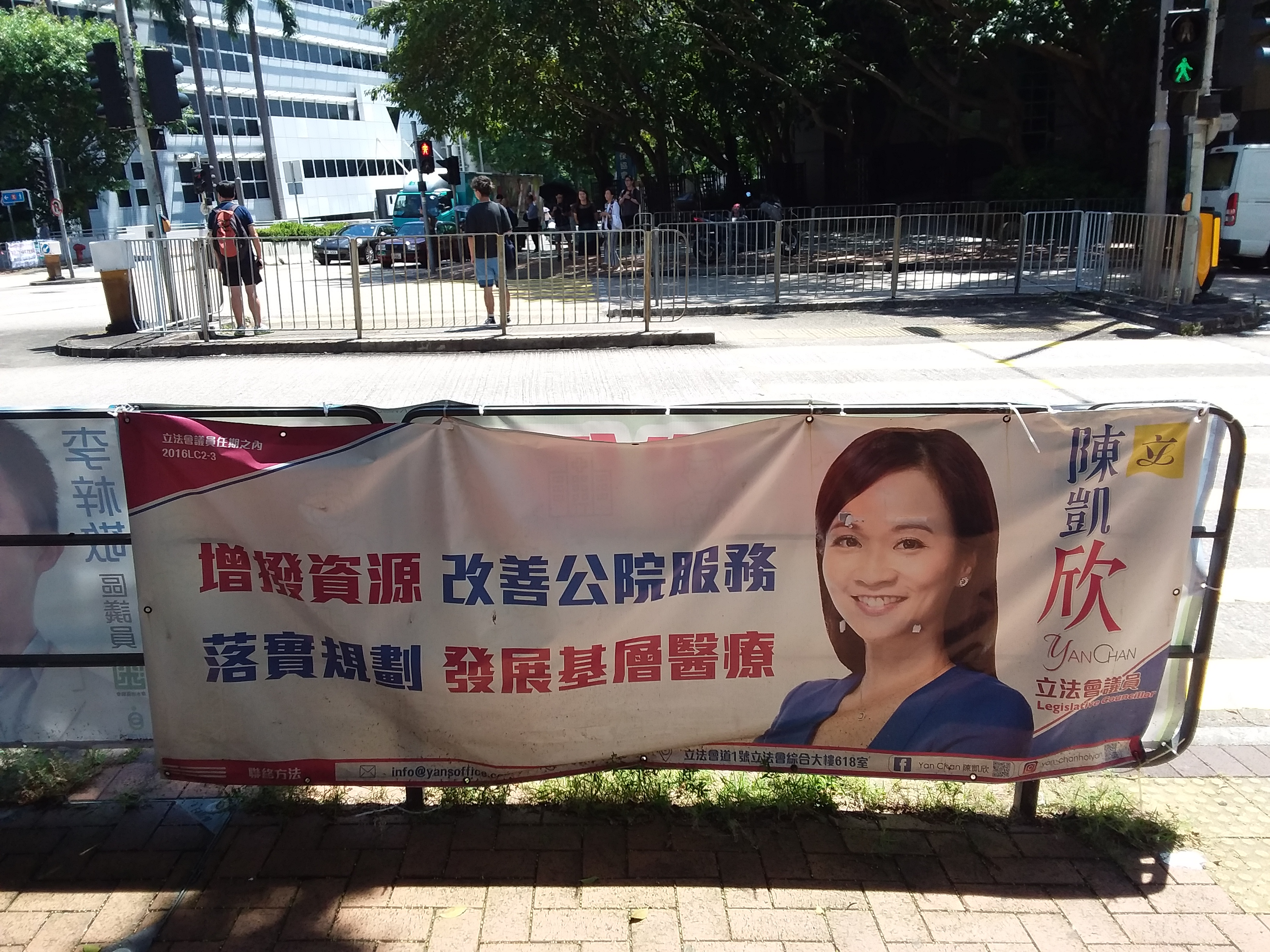 HK 九龍塘 Kln Tong 達之路 Tat Chee Avenue 桃源街 To Yuen Street in September 2019 陳凱欣 Chan Hoi-yan